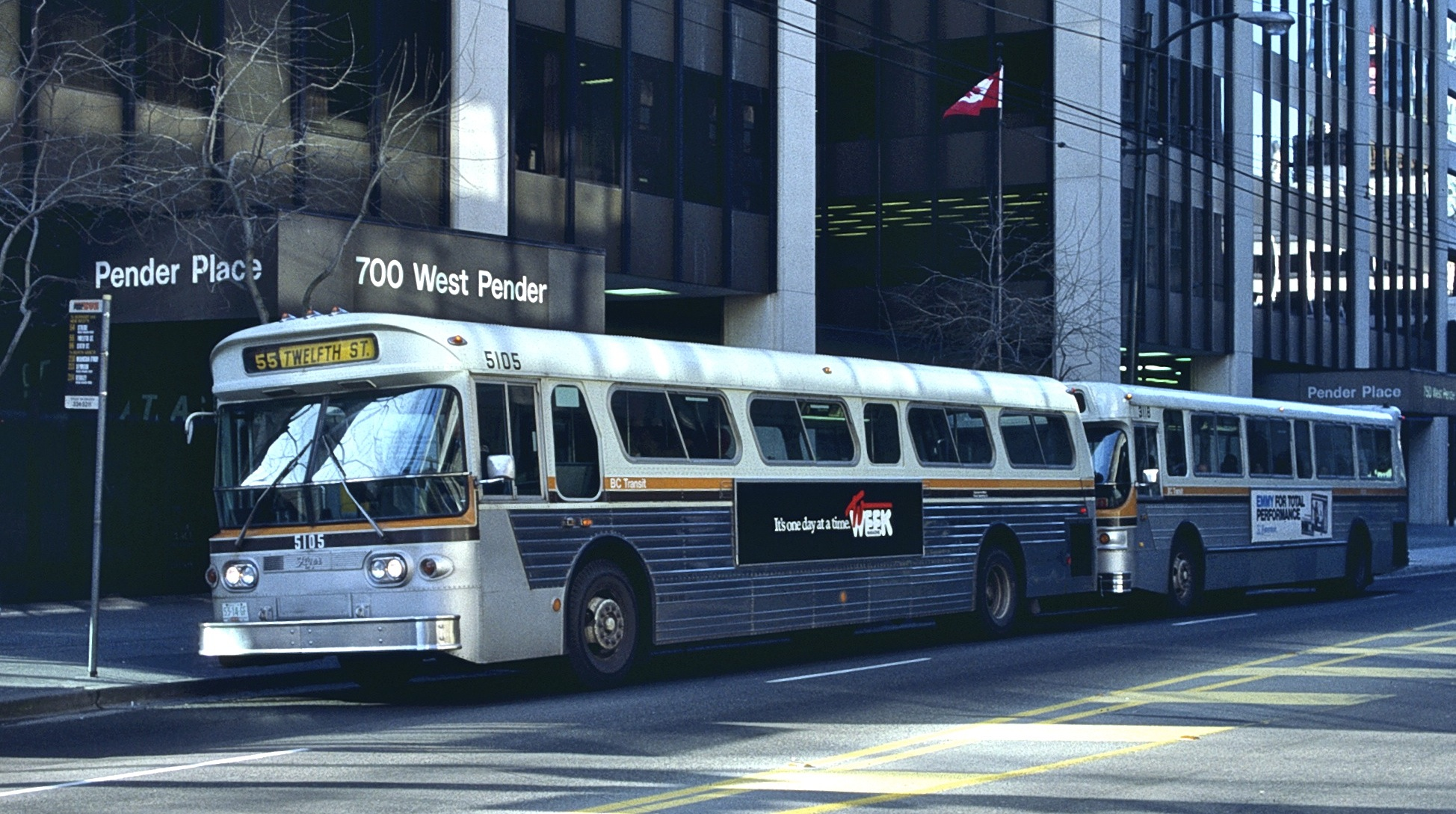 Two BC Transit buses in downtown Vancouver, B.C., at the stop eastbound on Pender Street at Granville Street. The first bus, No. 5105, is a 1973 Flyer D700A. The second, No. 3118, is a 1975 Flyer D800.